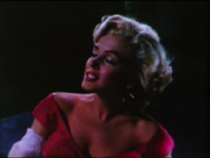 Marilyn Monroe singing in the theatrical trailer of the 1953 film Niagara directed by Henry Hathaway.